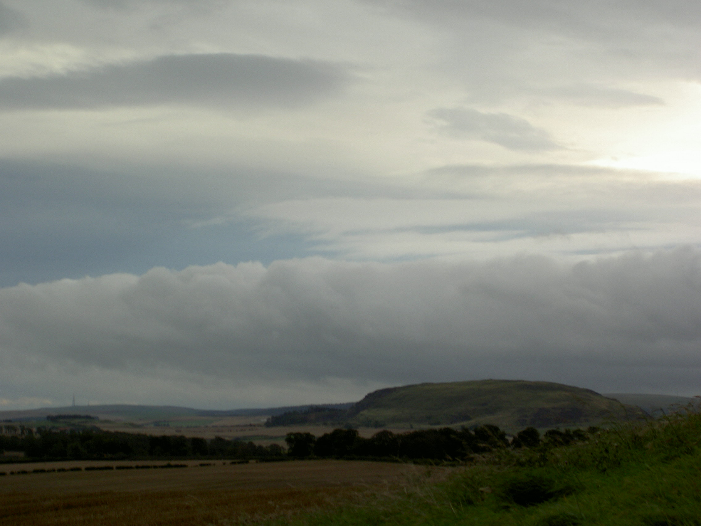 Traprain Law from Hailes 06 October 2004, 12:25:22 Brendan Douglas-Hamilton